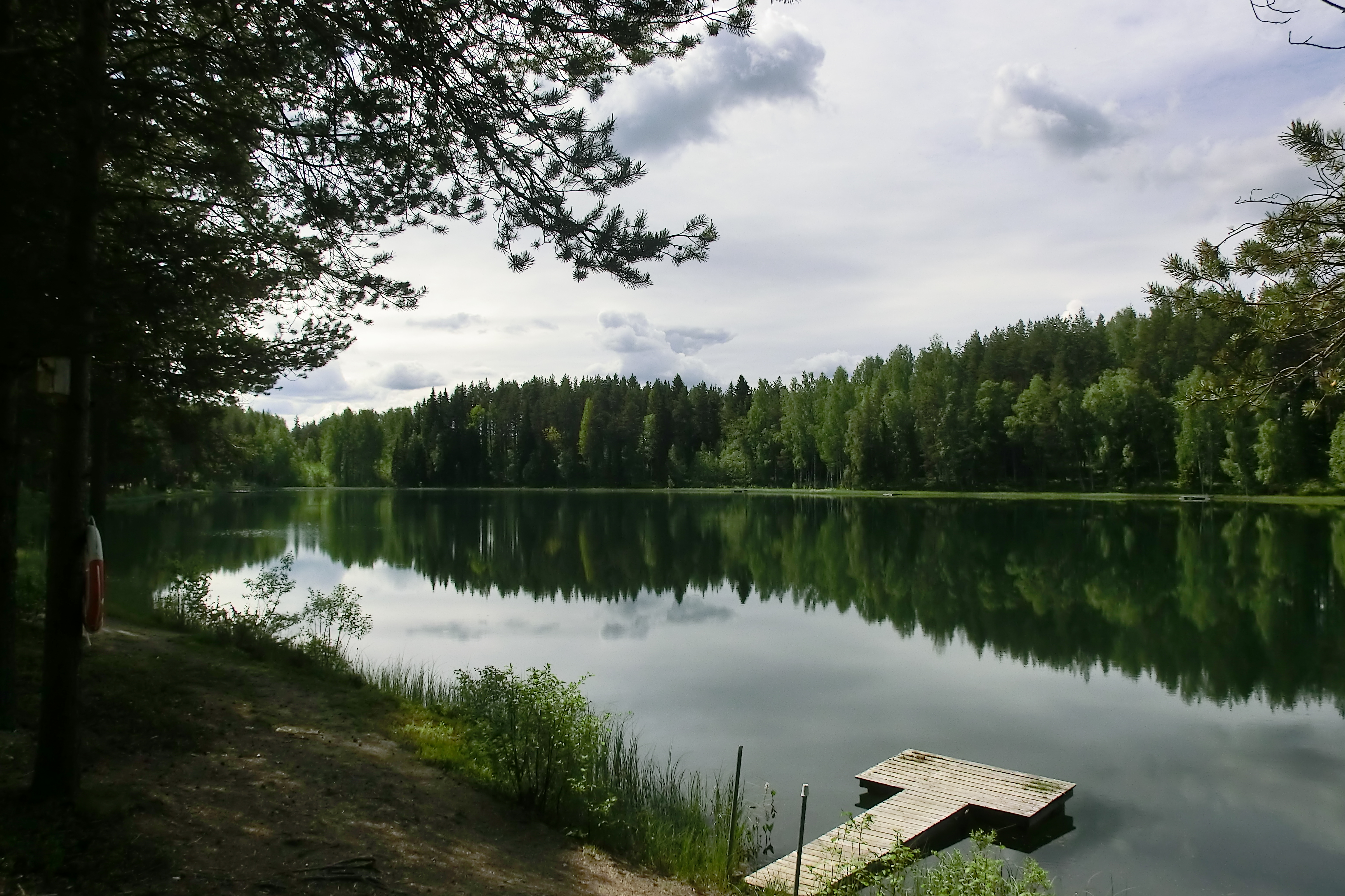 Blåtjärn, a lake within Långvattnets nature reserve